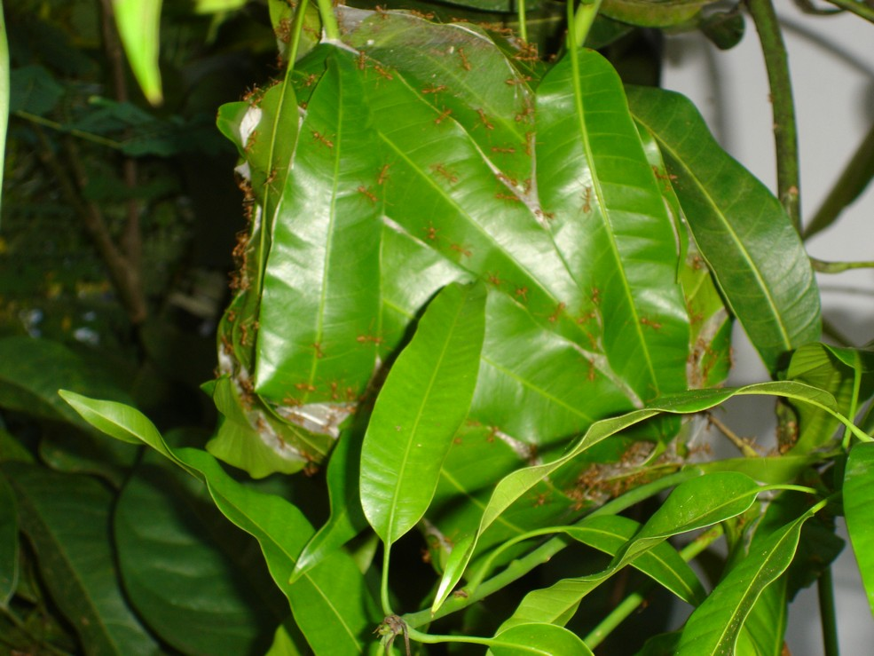 Weaver ant nest on a mango tree. Photo taken by user.